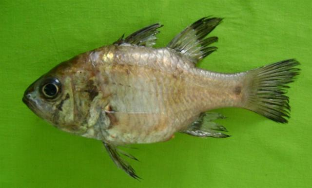 Apogonichthyoides pseudotaeniatus specimen at Karachi, Pakistan, Karachi, 27-10-2009, 9 cm. Assist by Kashifa Zohra.